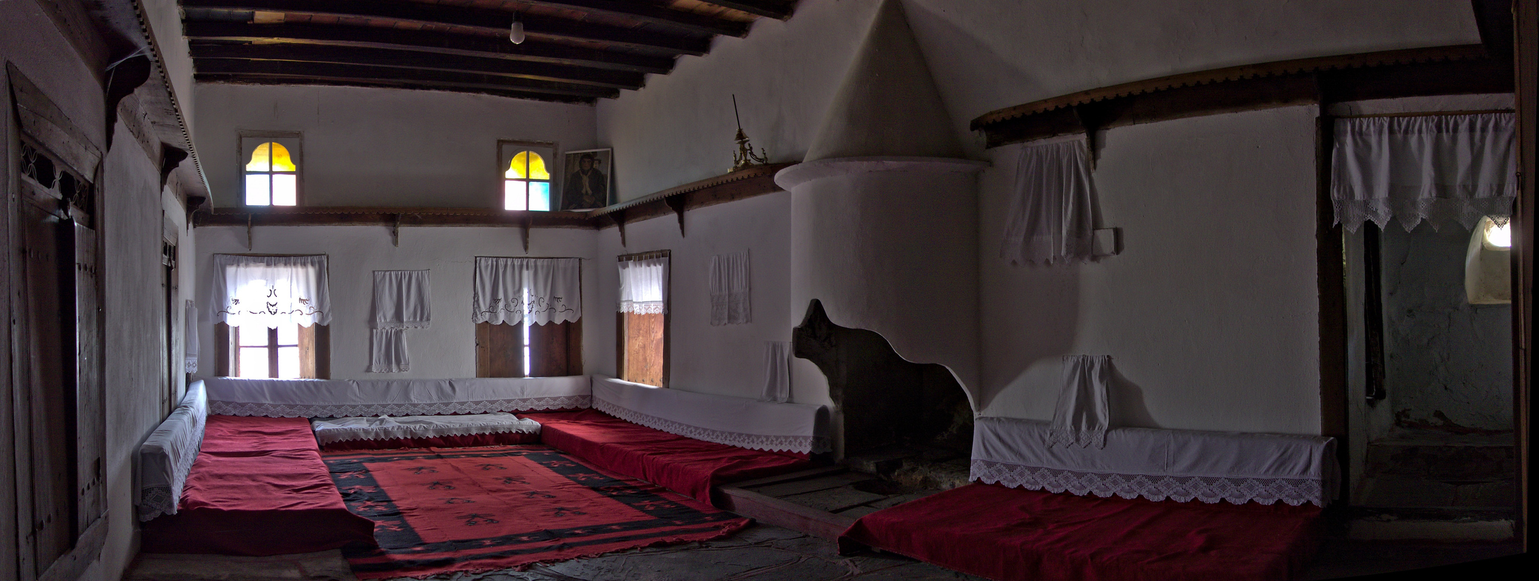 Interior of the Zekate House